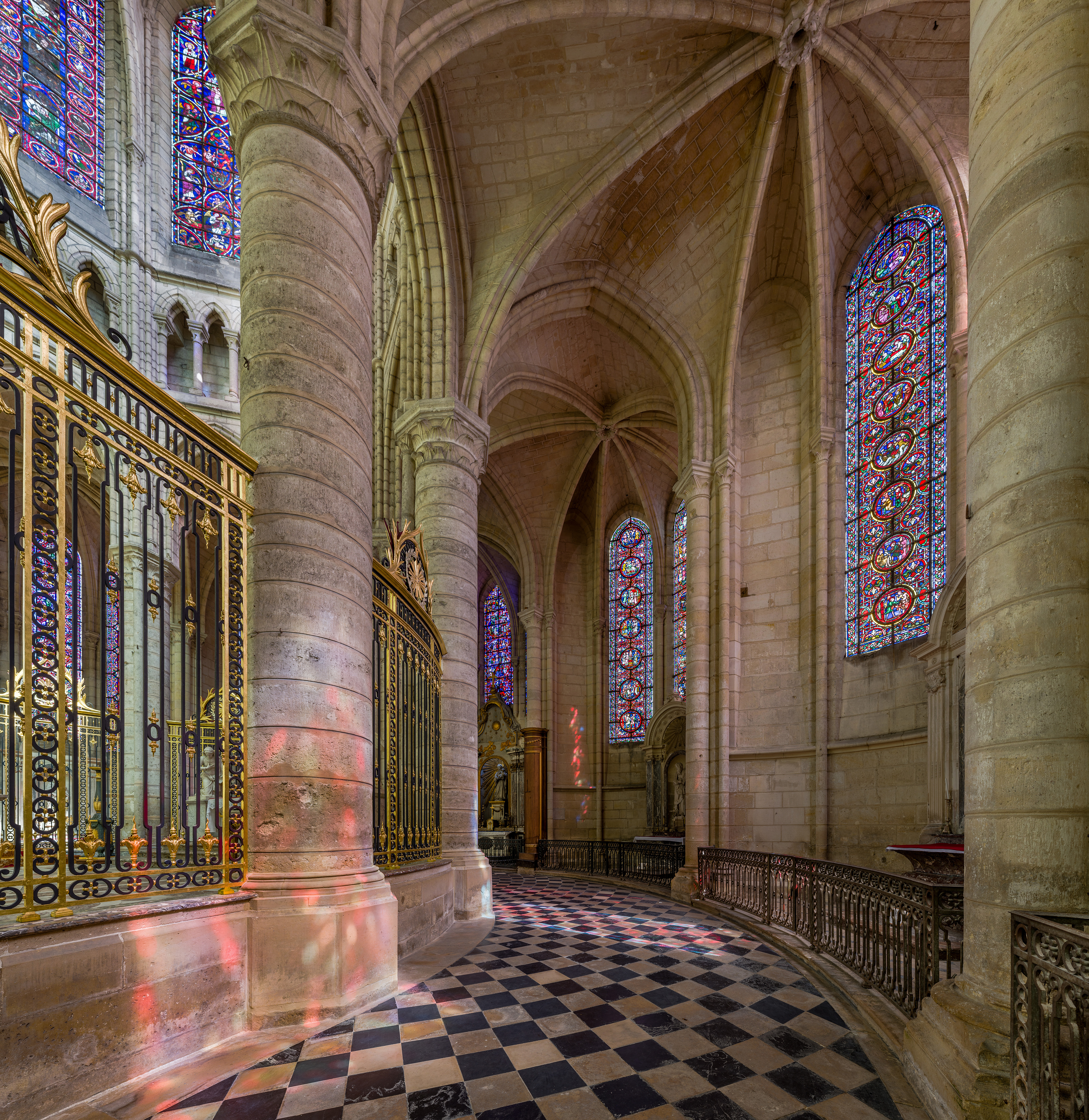 The ambulatory near the apsis, view to the north-east, Soissons Cathedral, Picardy, France.